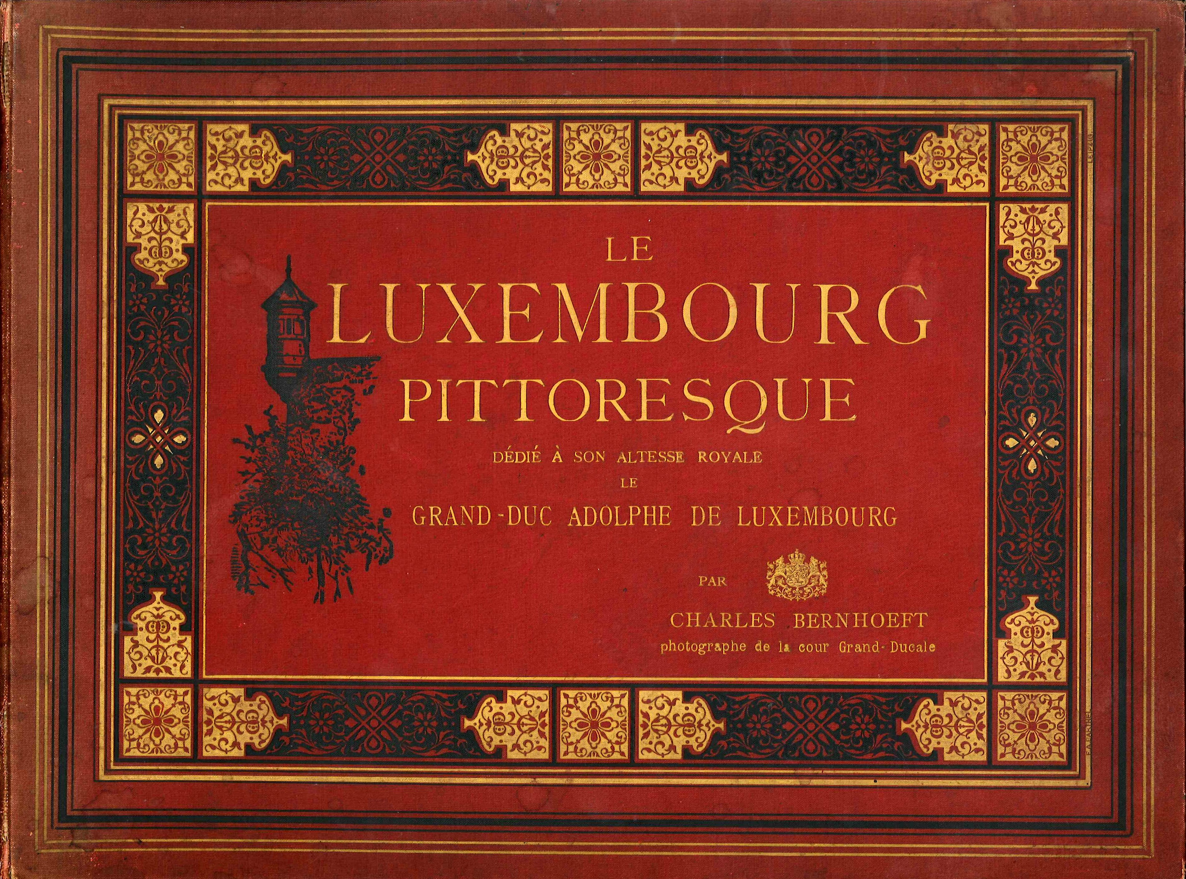 Charles Bernhoeft Le Luxembourg Pittoresque * Das Romantische Luxemburg (1893); dédié à Son Altesse Royale le Grand-Duc Adolphe de Luxembourg par Charles Bernhoeft, photographe de la cour Grand-Ducale.